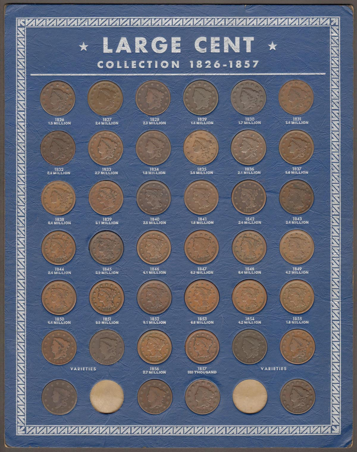 1939 coin collecting board for Large Cents